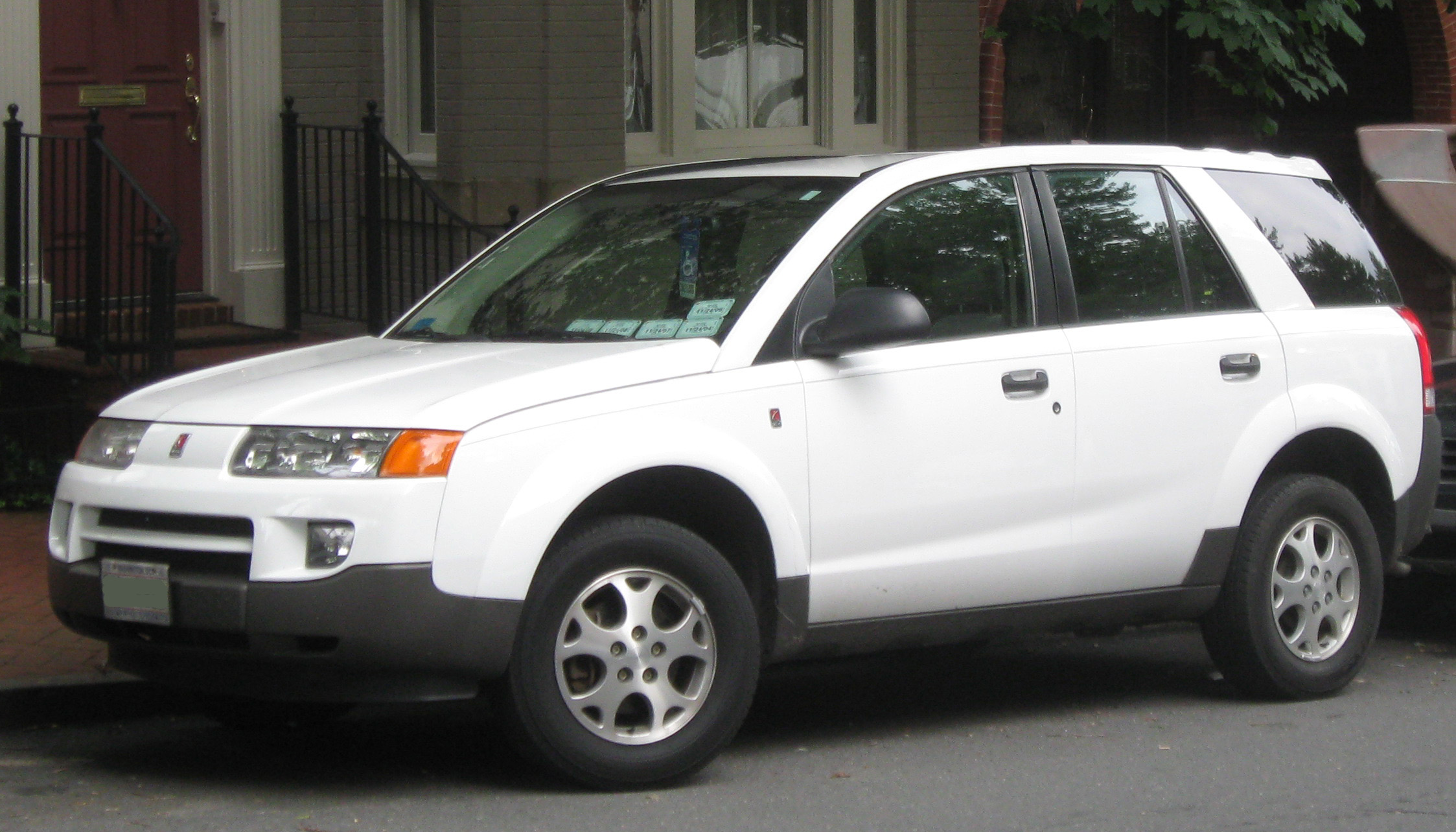 2002-2005 Saturn Vue photographed in Washington, D.C., USA.